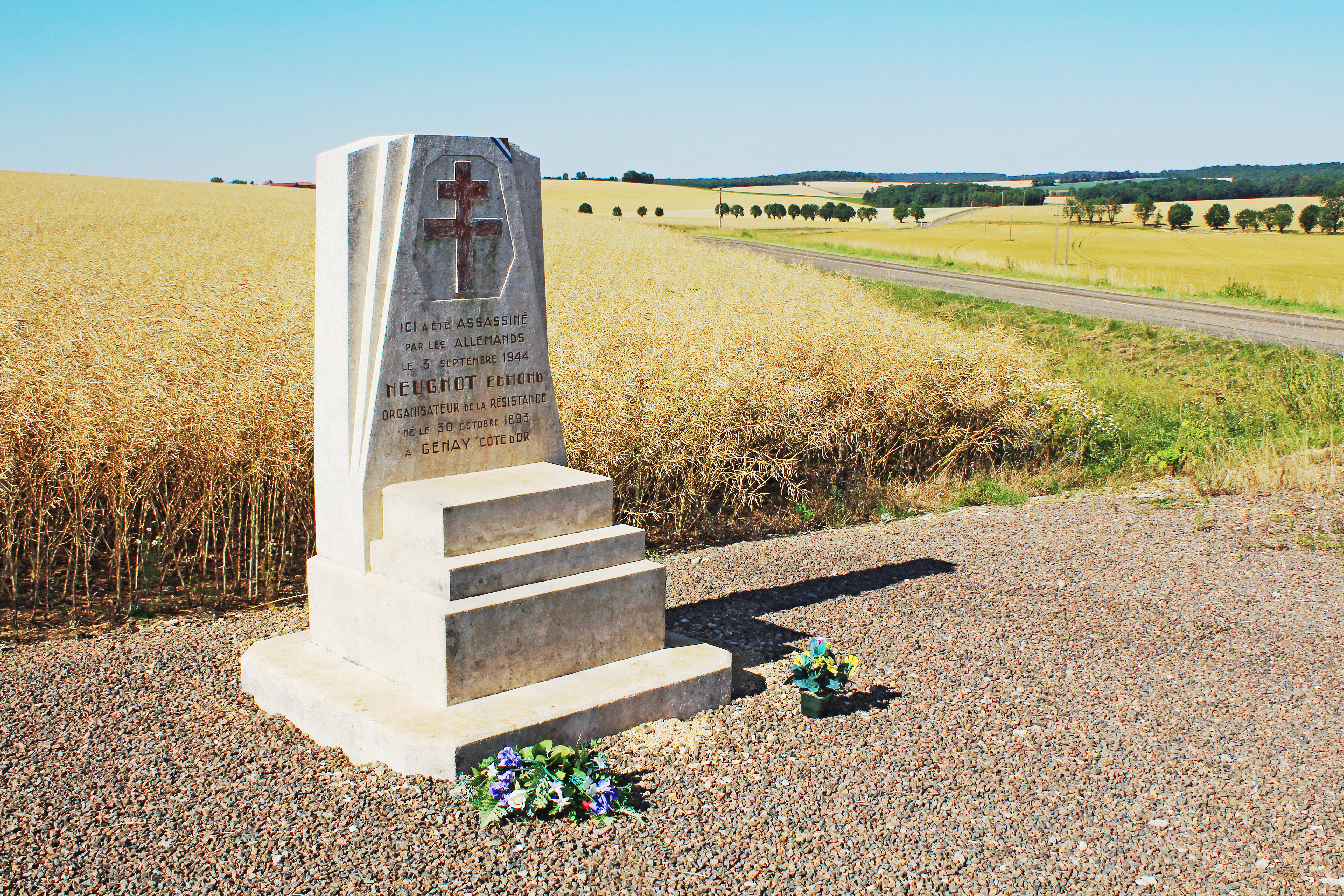 Monument in memory of the Resistance fighter Edmond Neugnot near the crossroad Croix-Pingenet